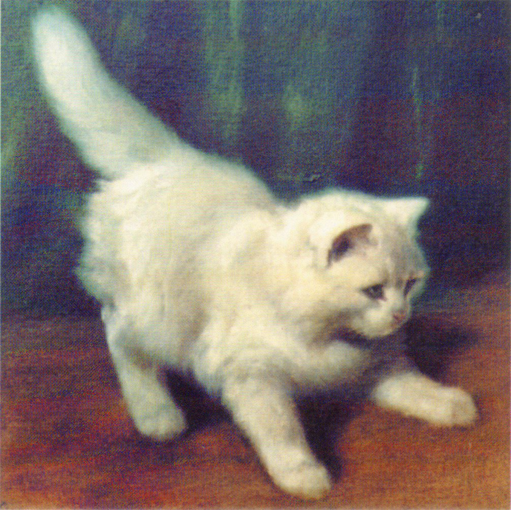 "Junge Angorakatze", painting by the German-Hungarian painter Arthur Heyer (*1872 †1931)